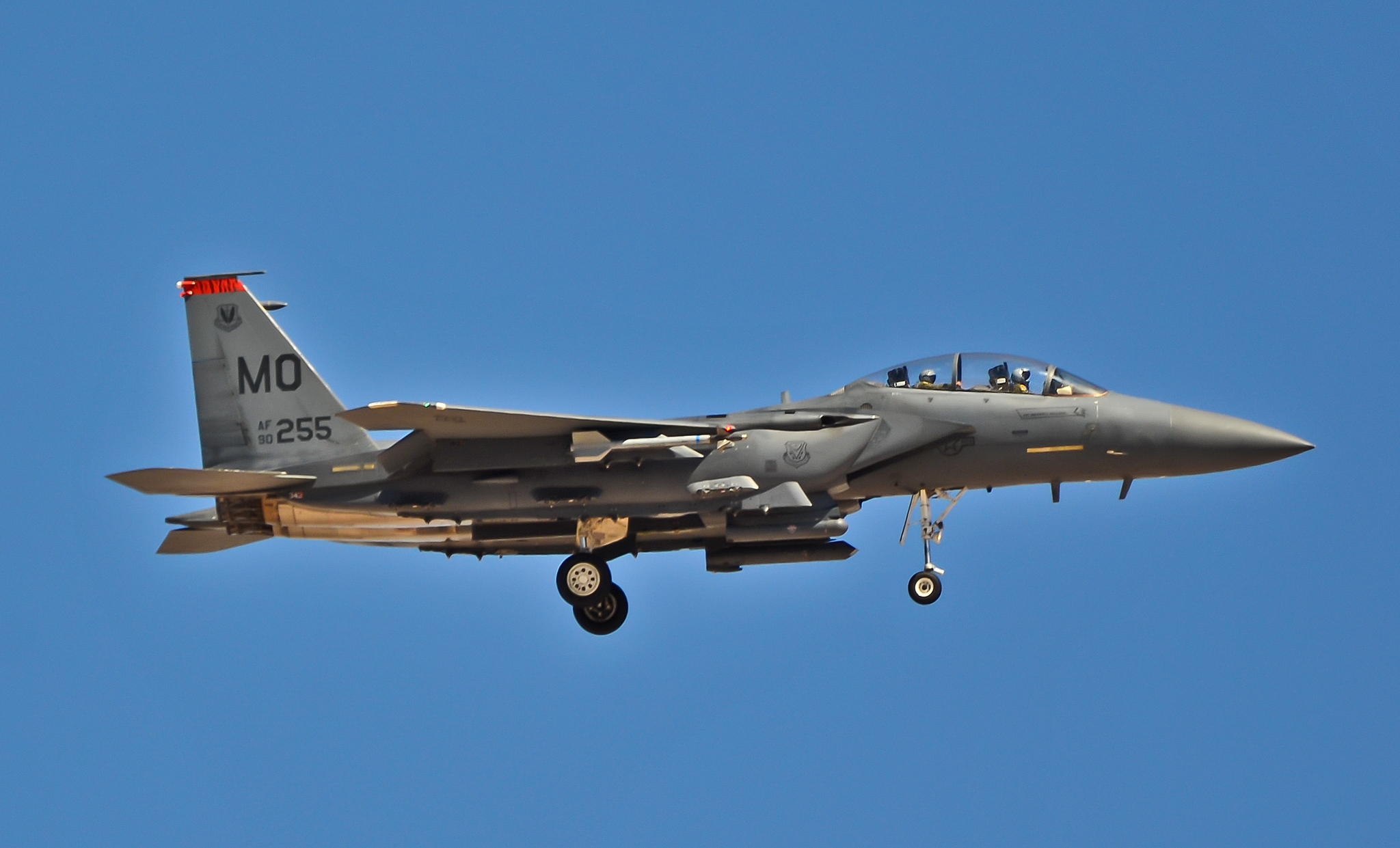 Red Flag 15-3 July 13 to 31 Las Vegas - Nellis AFB (LSV / KLSV) TDelCoro July 15, 2015